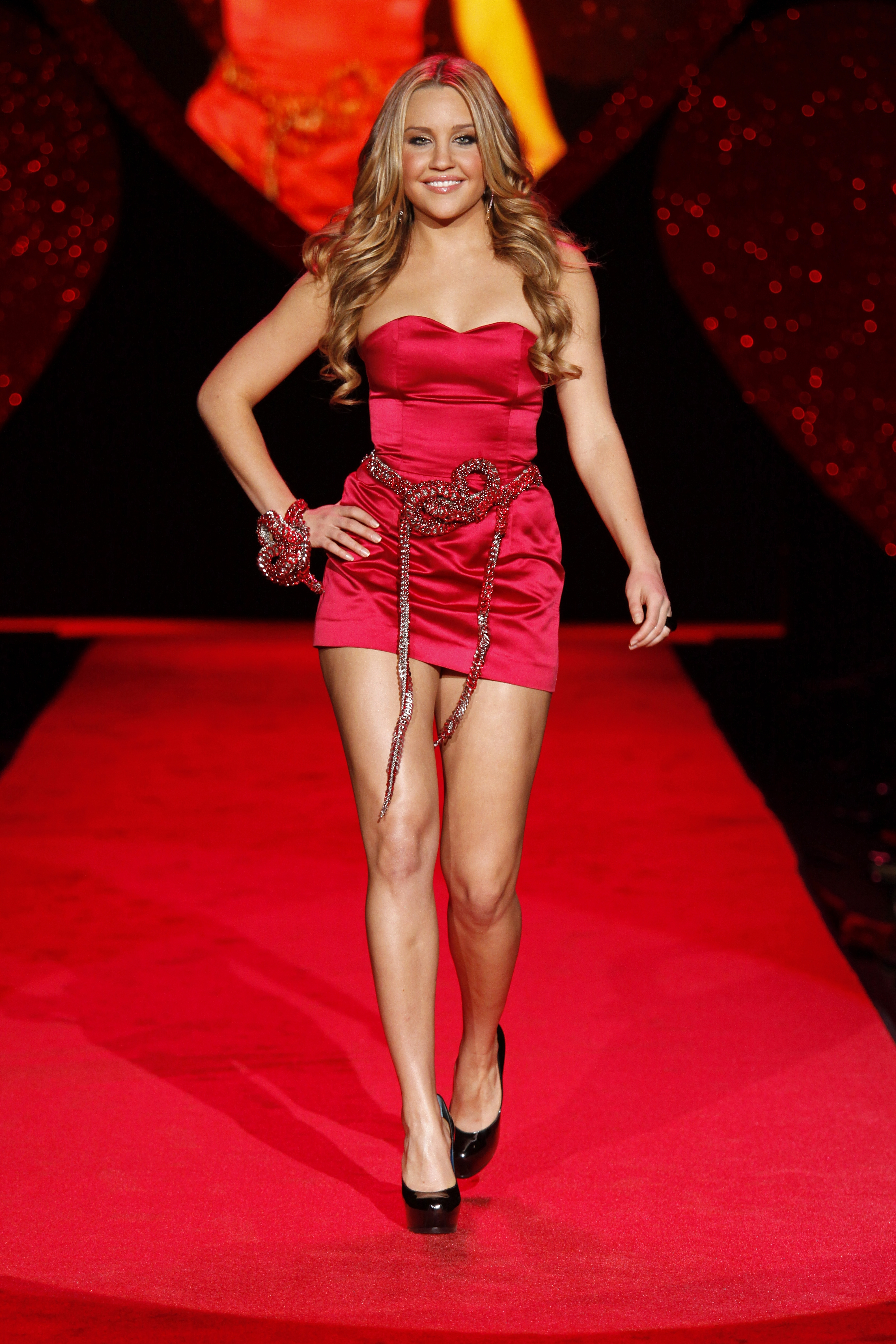 Amanda Bynes at The Heart Truth's Red Dress Collection Fashion Show during New York Fashion Week. February 13, 2009 at Bryant Park.